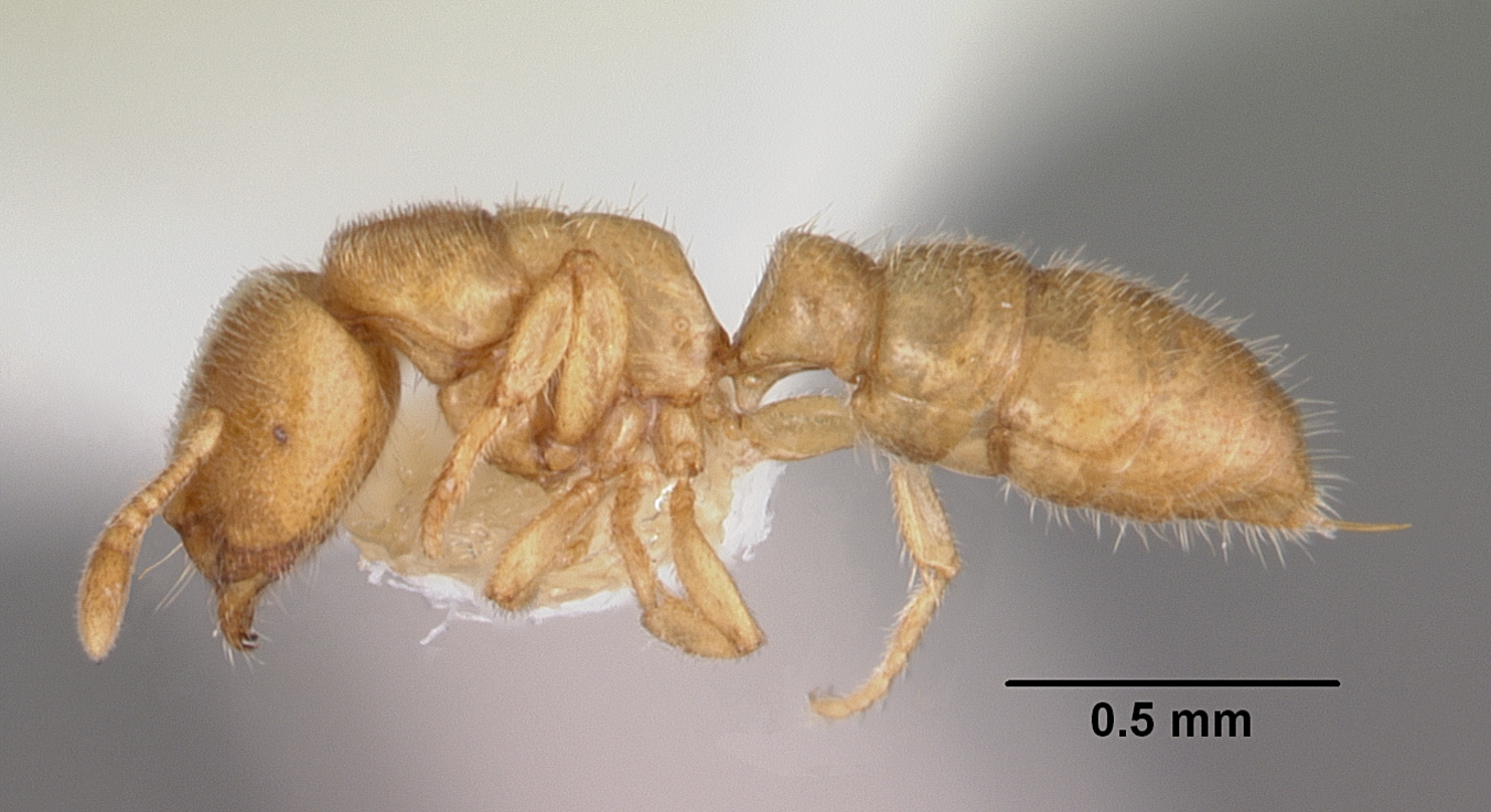 Profile view of ant Prionopelta punctulata specimen casent0102586.